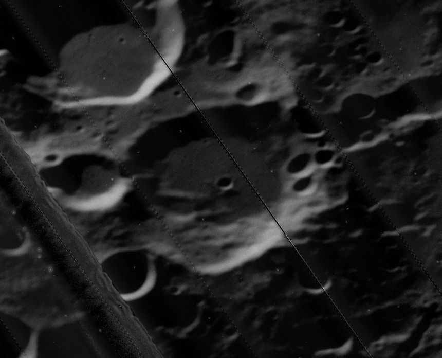 Oblique view of Quetelet, on the far side of the moon, facing west. Band crossing image is artifact of original.